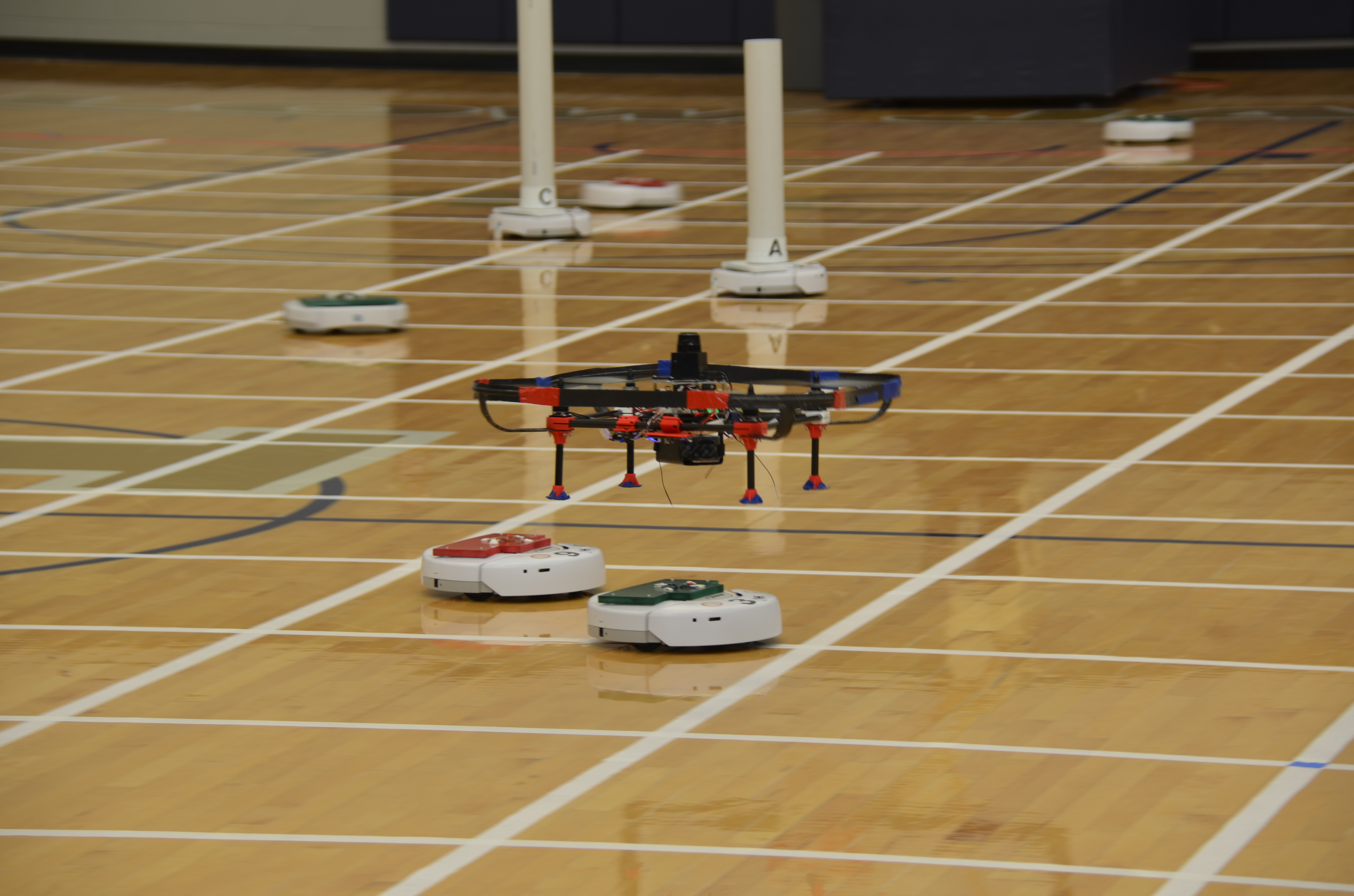 Photograph taken during the American Venue of the International Aerial Robotics Competition on 5 August 2014. ⁃ Firewall 18:47, 18 August 2014 (UTC)